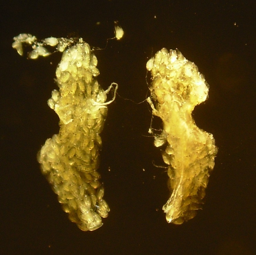 Elminius modestus. Left and right egg masses. The black points are nauplius eyes.